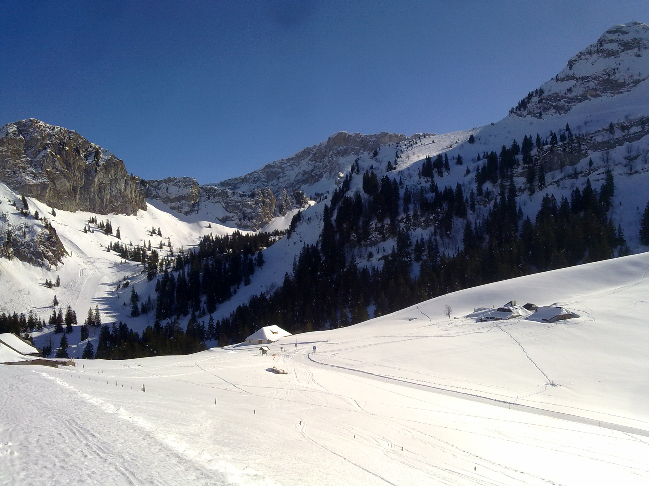 Col de Jaman